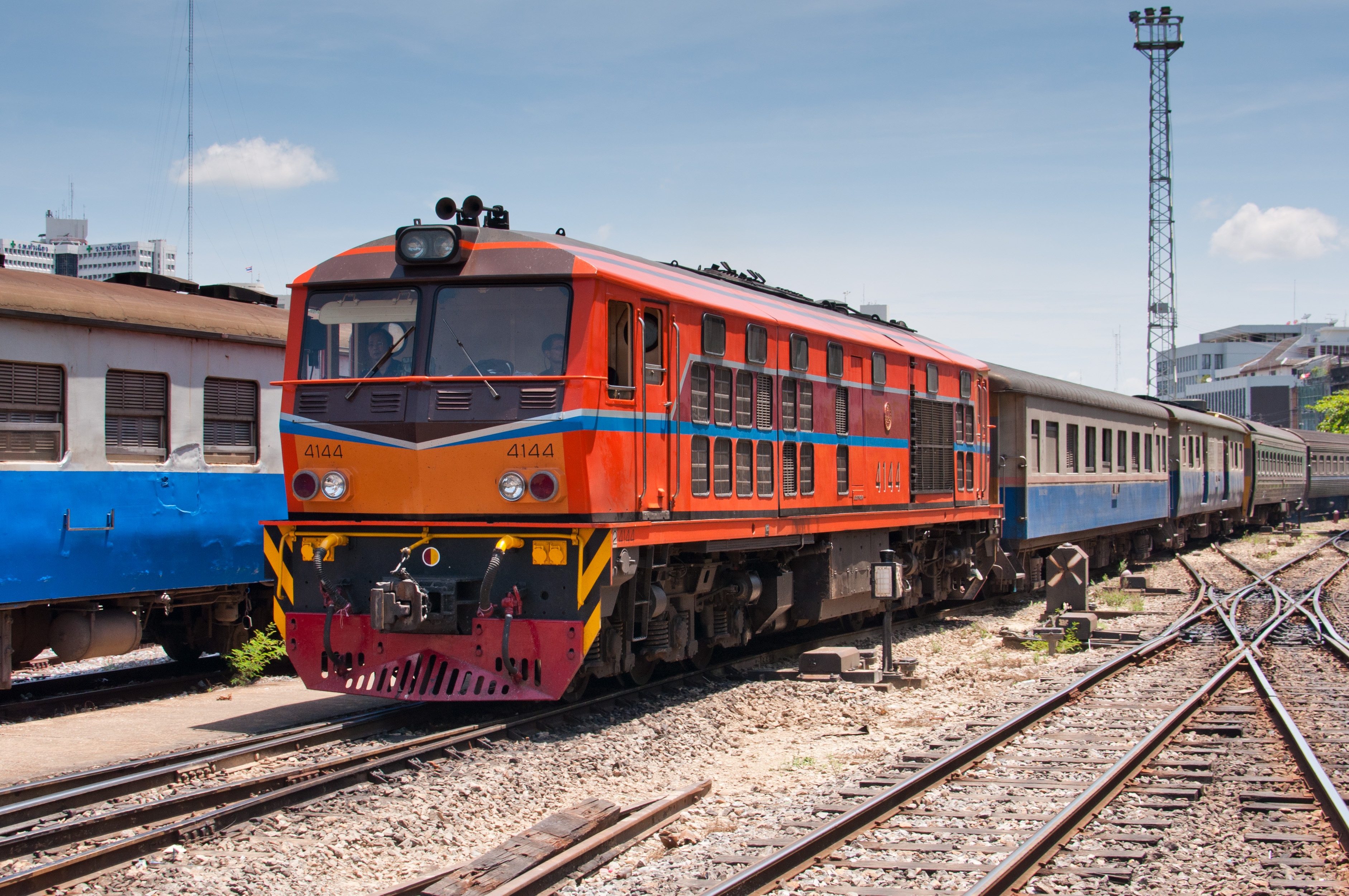 State Railways of Thailand locomotive 4144 pulls a train into Hua Lamphong station in Bangkok, Thailand. You can see more of my railroad photos in the Trains gallery on my web site.